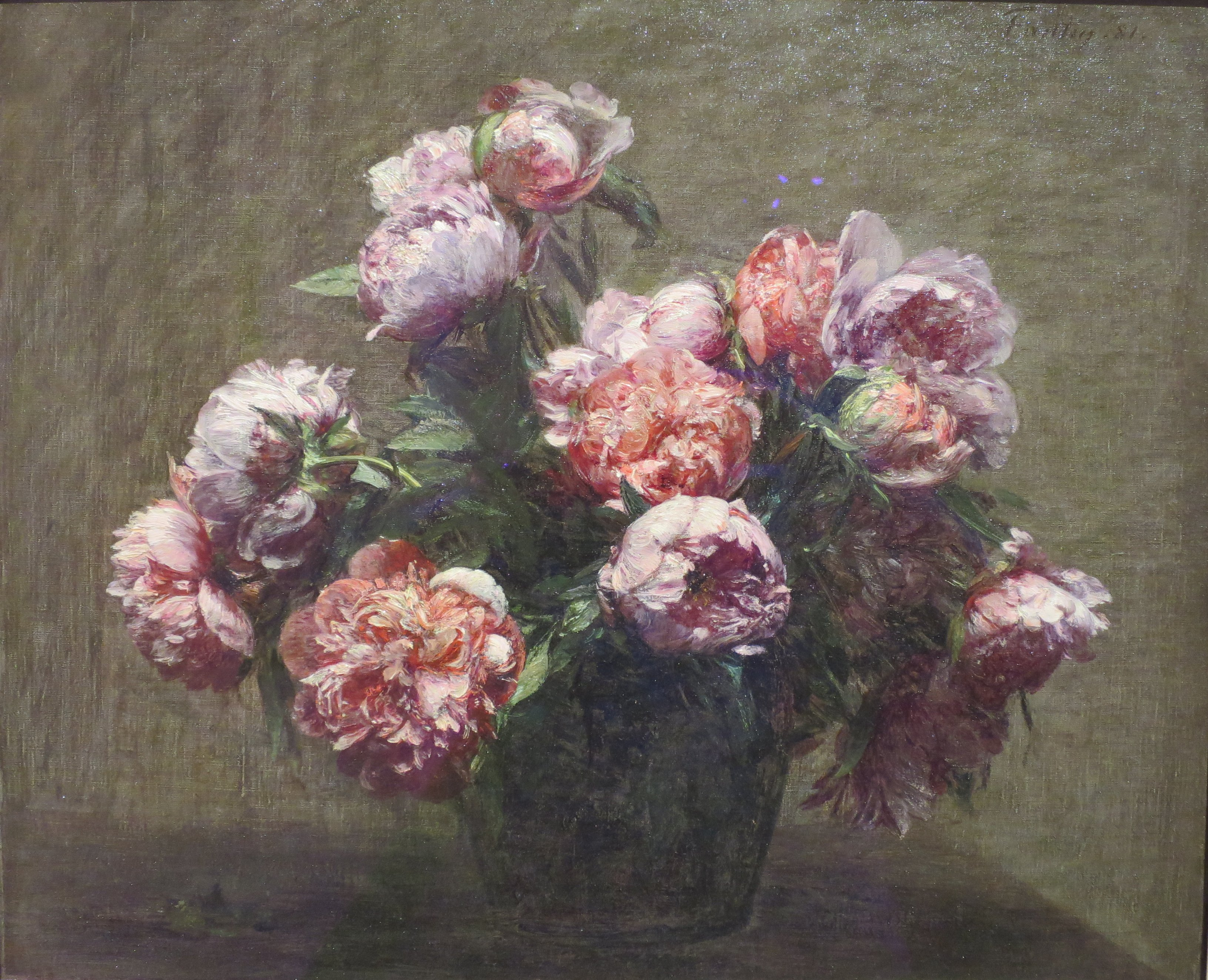 Vase of Peonies